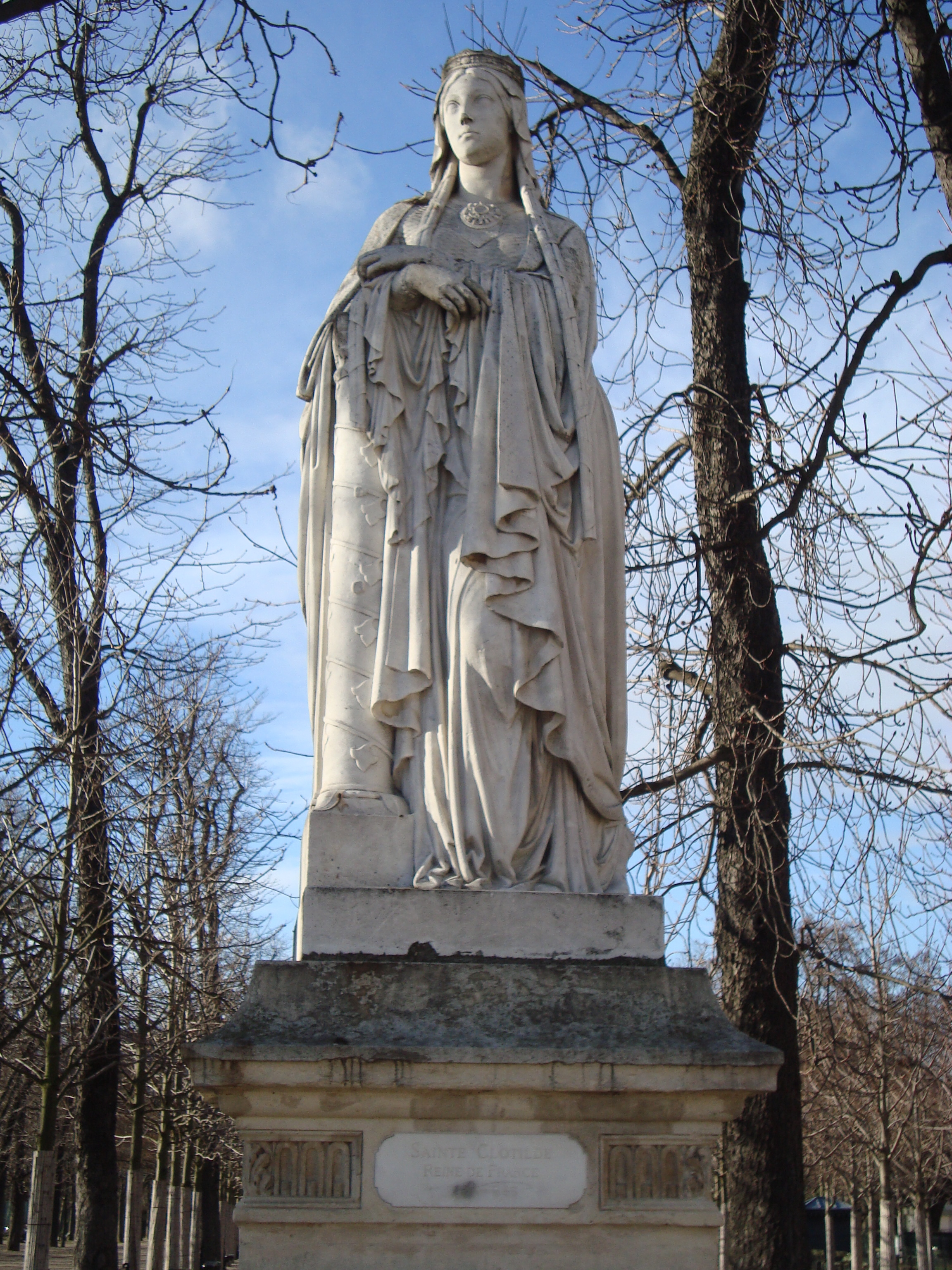 Statue of Sainte Clothilde in the Jardin du Luxembourg, Paris Jean-Baptiste-Jules Klagmann (1810–1867) Alternative names Jean-Baptiste Jules Klagmann; Jean-Baptiste-Jules Klagmann; Jean-Bapt. Jules KlagmannDescriptionFrench sculptor and designerDate of birth/death 1 April 1810 / 1810 18 January 1867 Location of birth/death Paris ParisAuthority control : Q2415052 VIAF: 95944321 ISNI: 0000 0000 7382 5821 ULAN: 500040676 GND: 140248021 SUDOC: 18167033X creator QS:P170,Q2415052